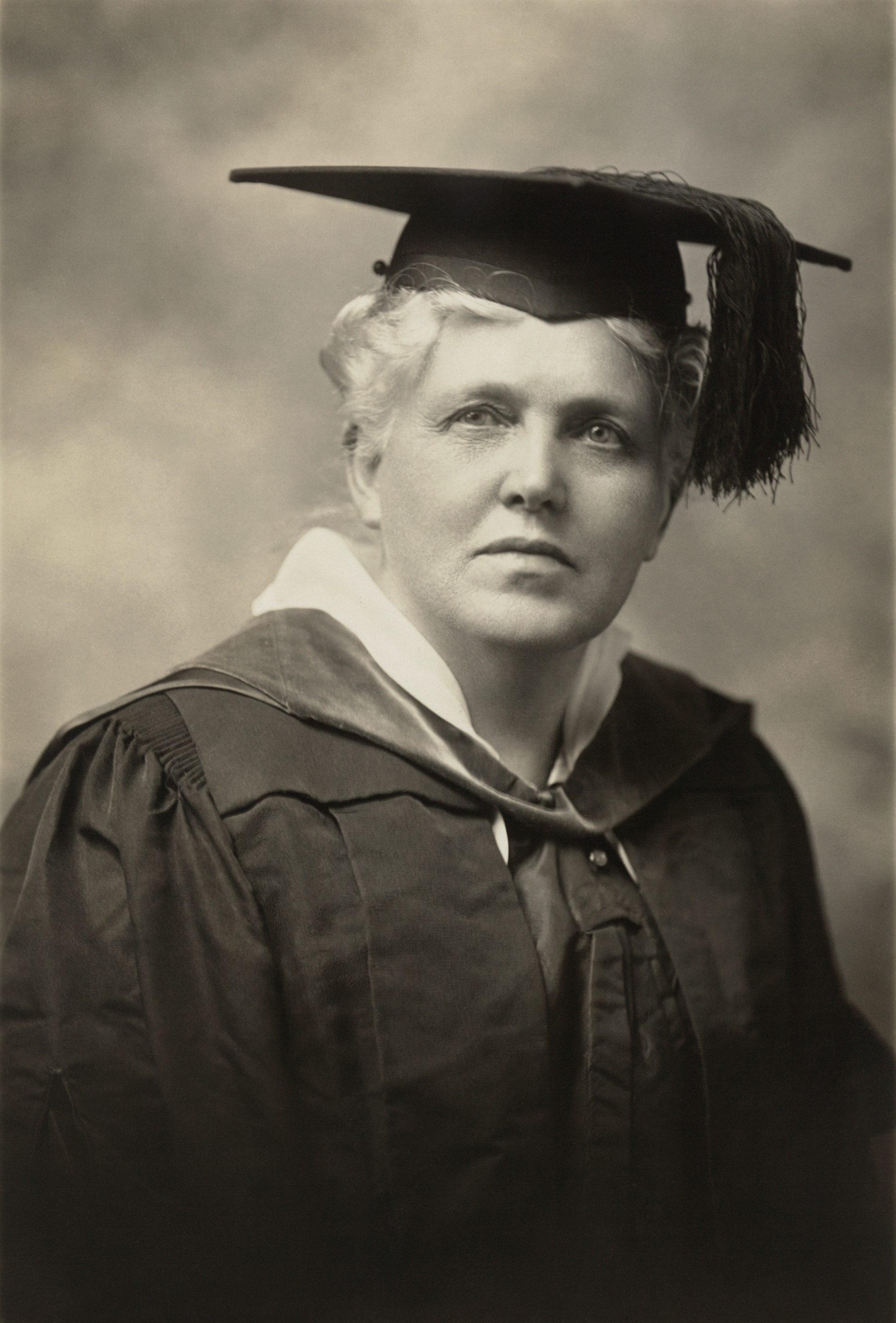 Summary: Formal portrait, head and chest, Dr. Emma Gillett, facing slightly to the right with head turned front toward camera, wearing cap and gown.